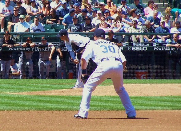 Félix Hernández, Seattle's ace, would get the win and go 8 innings with 10 strikeouts and one earned run in a game against the visiting Giants. First baseman Russell Branyan (30) would go 0 for 4 in the game, striking out 3 times.